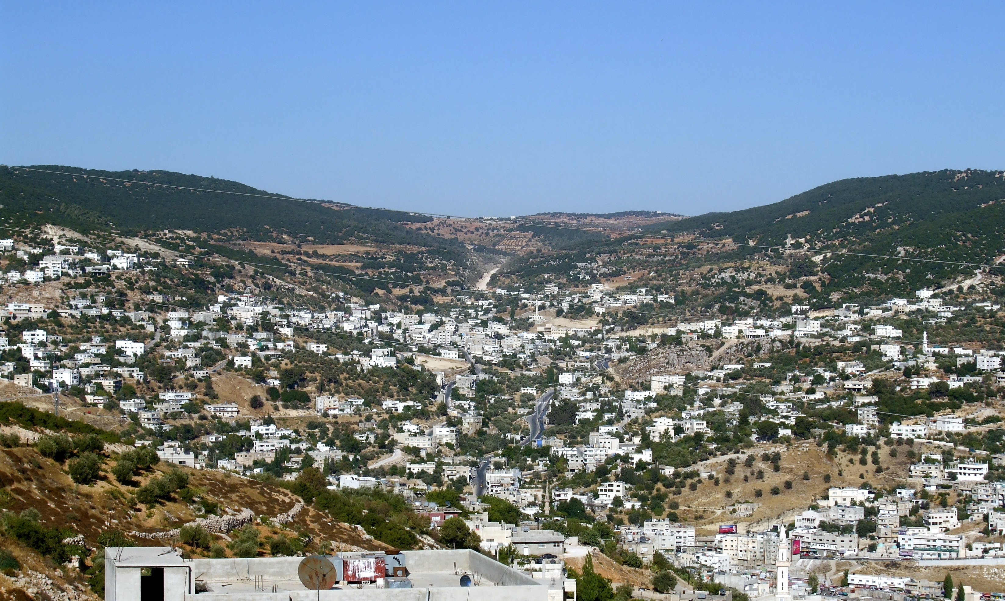 This is a view showing Ajloun which lies on the floor of a valley.